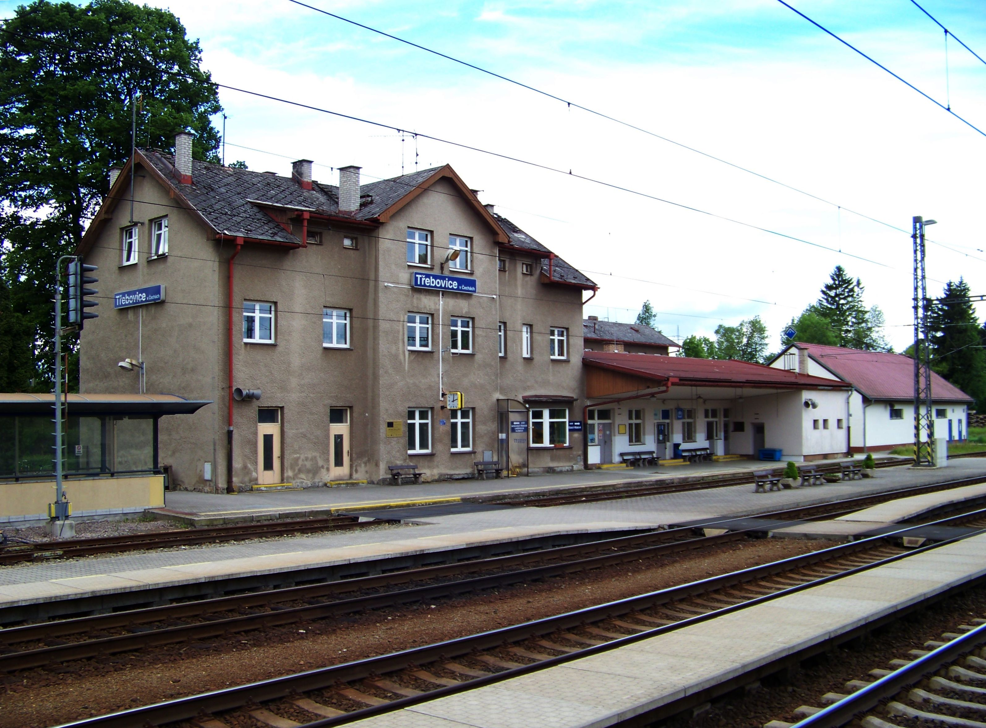 Třebovice, Ústí nad Orlicí District, Pardubice Region. Train station Třebovice v Čechách. - OpenStreetMap(Info)